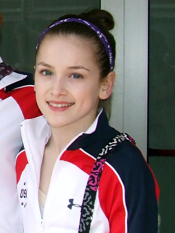 Norah Flatley and Liang Chow at 7th City of Jesolo Trophy